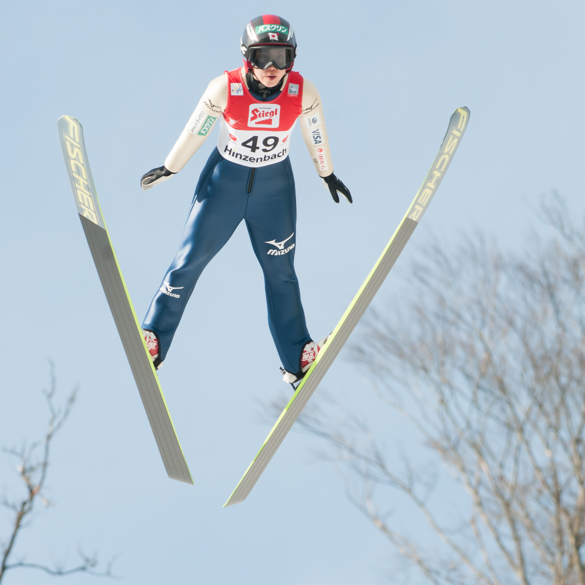 FIS Ski Jumping World Cup Ladies Hinzenbach 2016-02-07